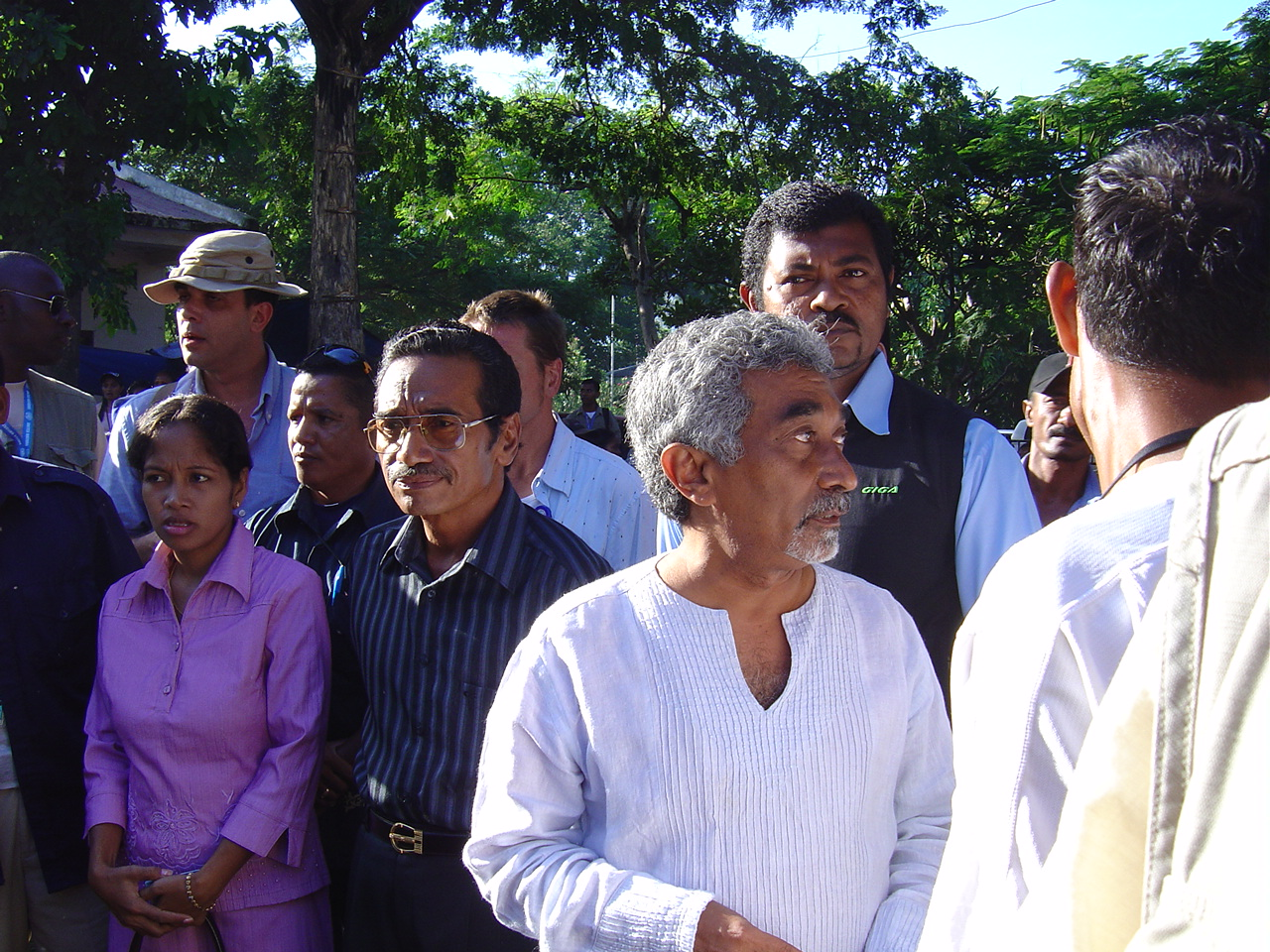 Francisco Lu-Olo Guterres and Marí bin Amude Alkatiri at presidental election 2007